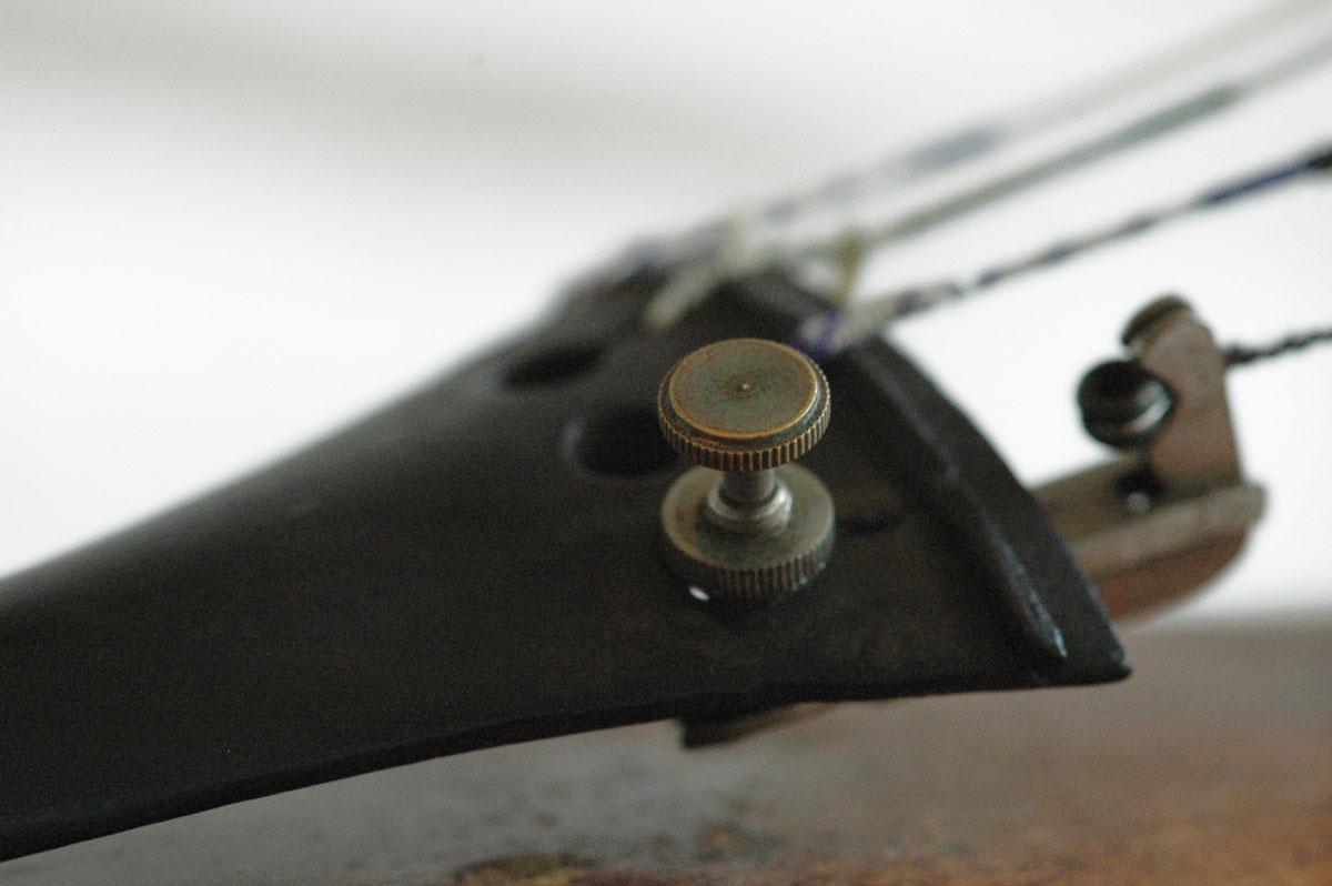 Fine tuner on the E-string of a violin.